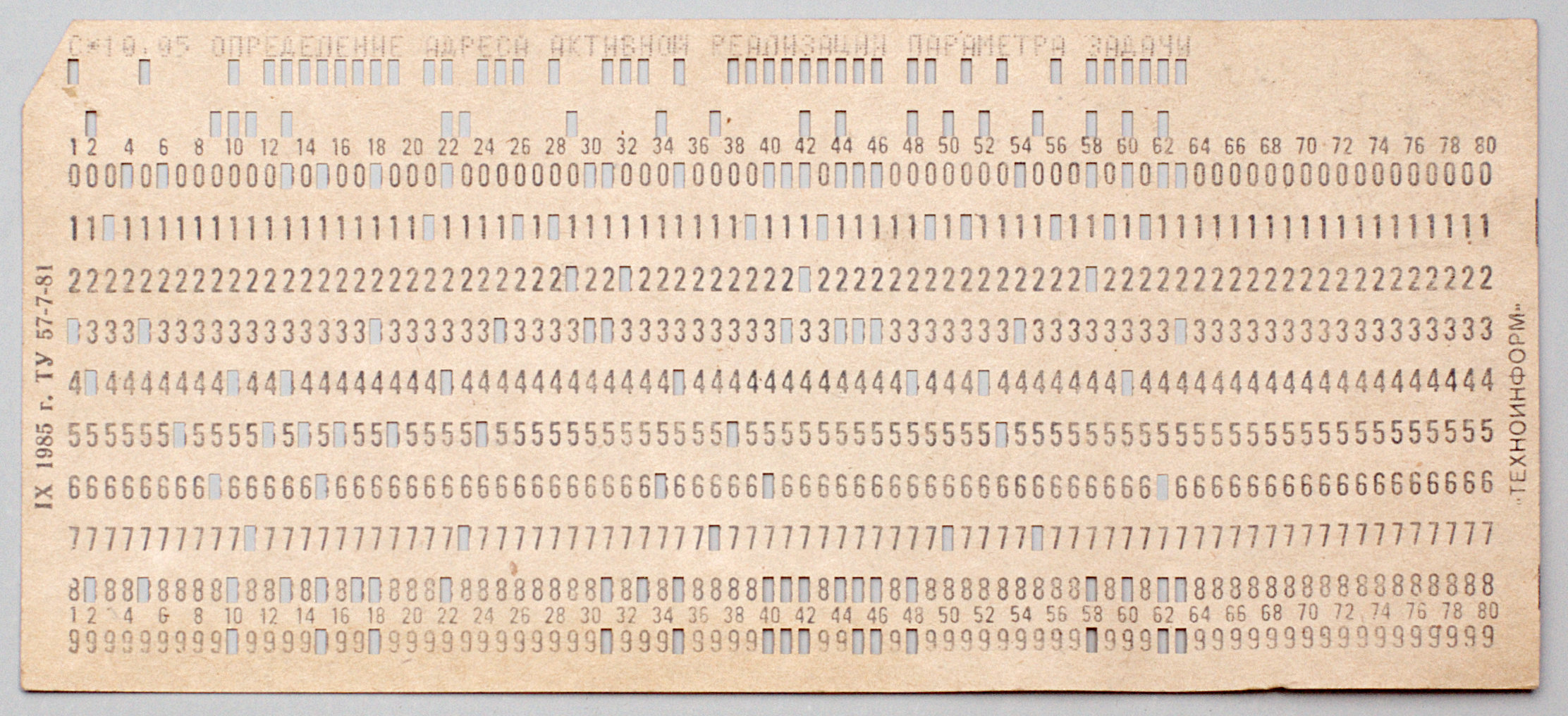 Perforated Russian punch card, contents (translated into English): С*10,05 DETERMINATION OF THE ADDRESS OF THE ACTIVE REALIZATION OF THE PARAMETER OF THE PROBLEM